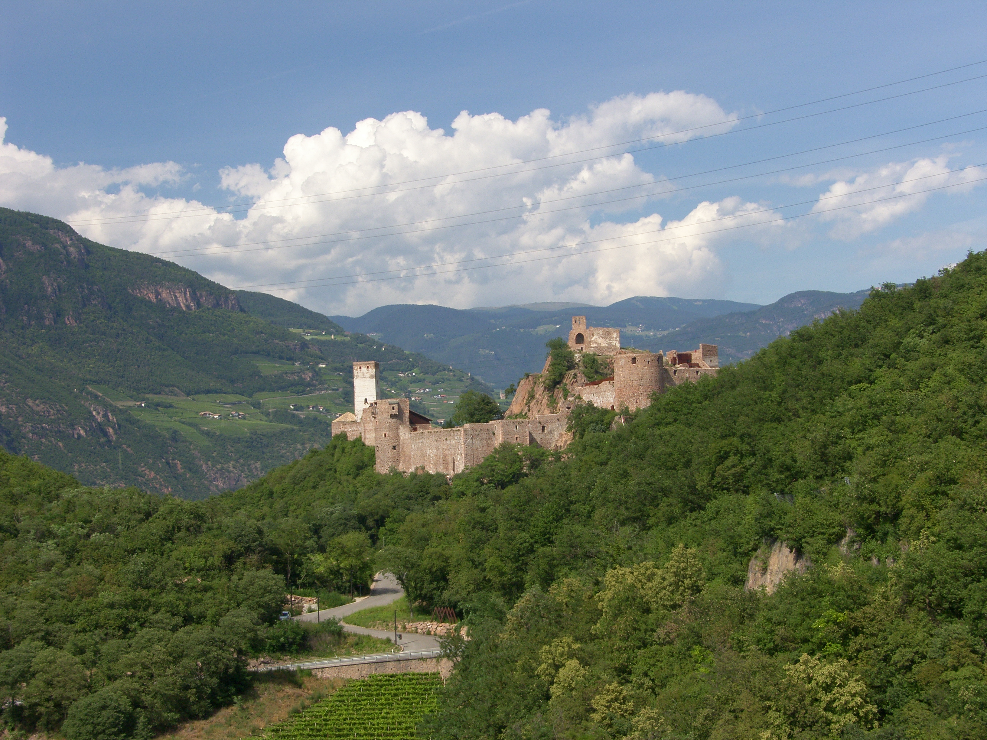 Castle Sigmundskron (Firmian), Bozen, South Tyrol, view from South-West